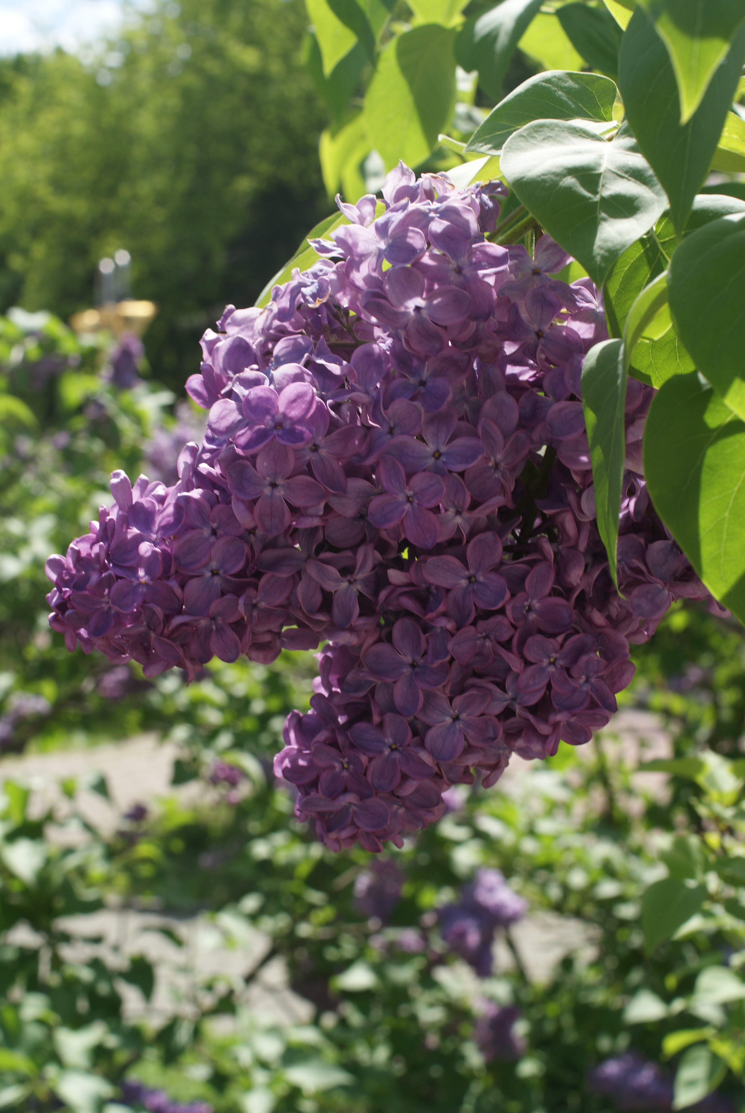 Syringa 'Sholokhov'